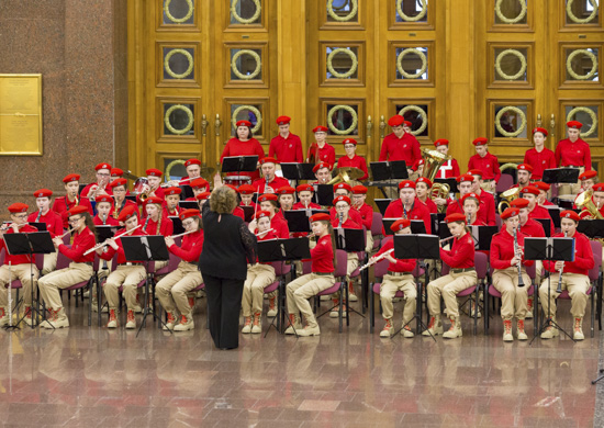 Центральный юнармейский оркестр примет участие в проекте «Спасская башня детям»